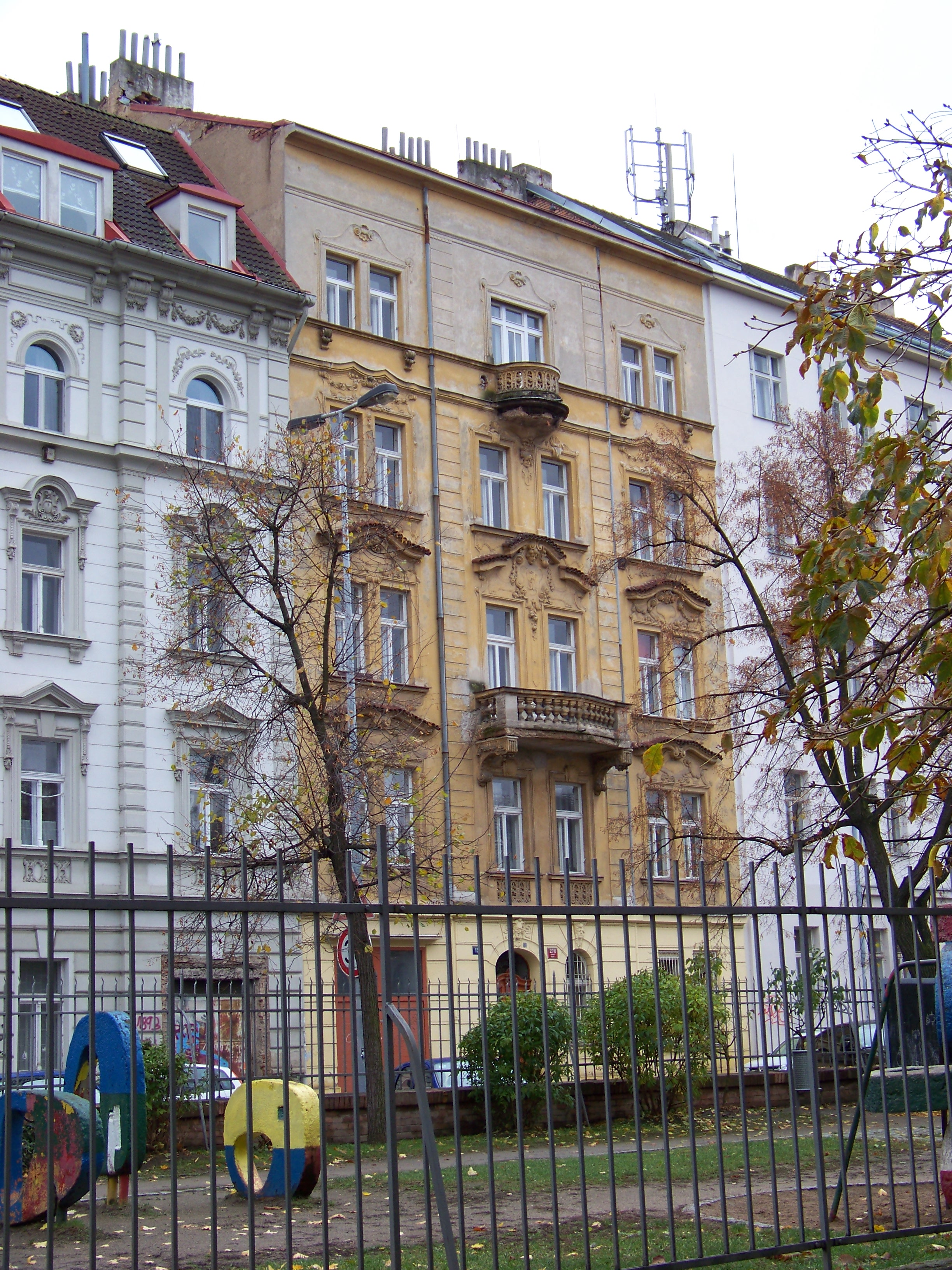 Prague-Bubeneč, the Czech Republic. Stromovka park, a playground and houses in Nad Královskou oborou street.